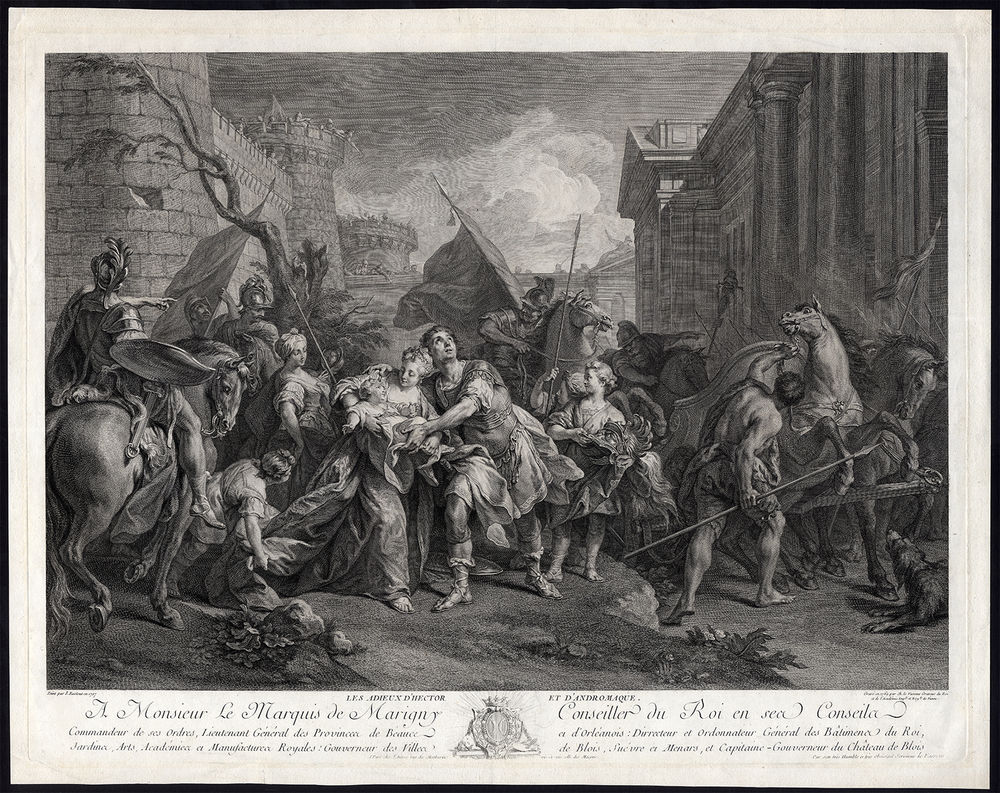 Farewell of Hector and Andromache (engraving by Jean-Charles Le Vasseur, 1769, after a 1727 painting by Jean II Restout)